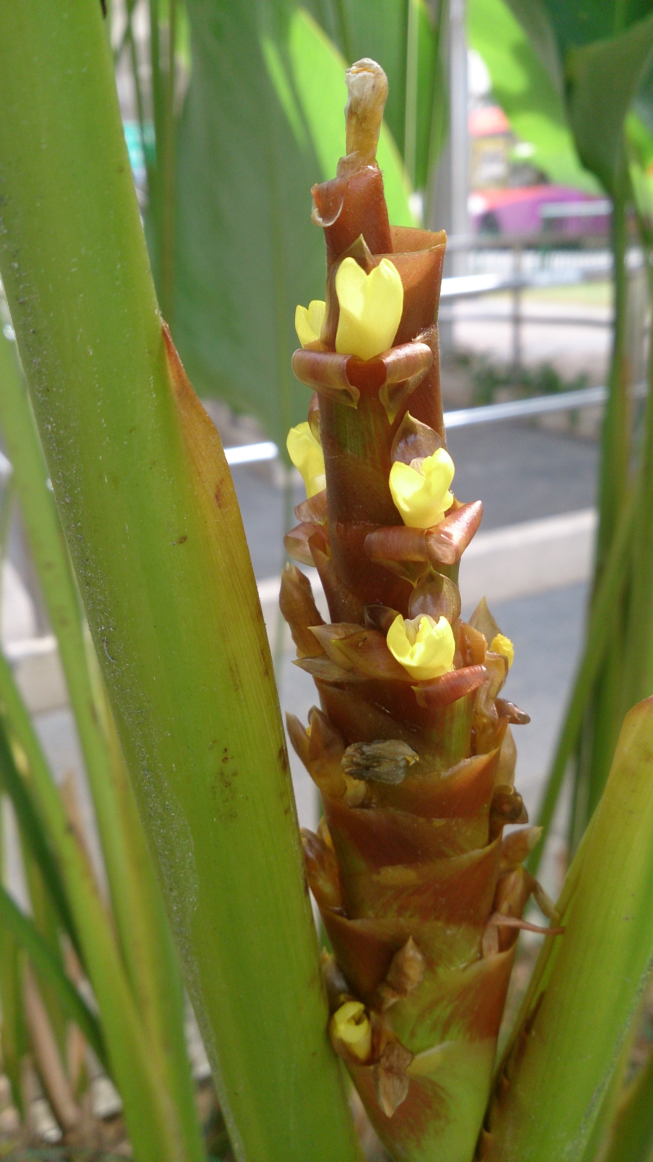 Calathea lutea